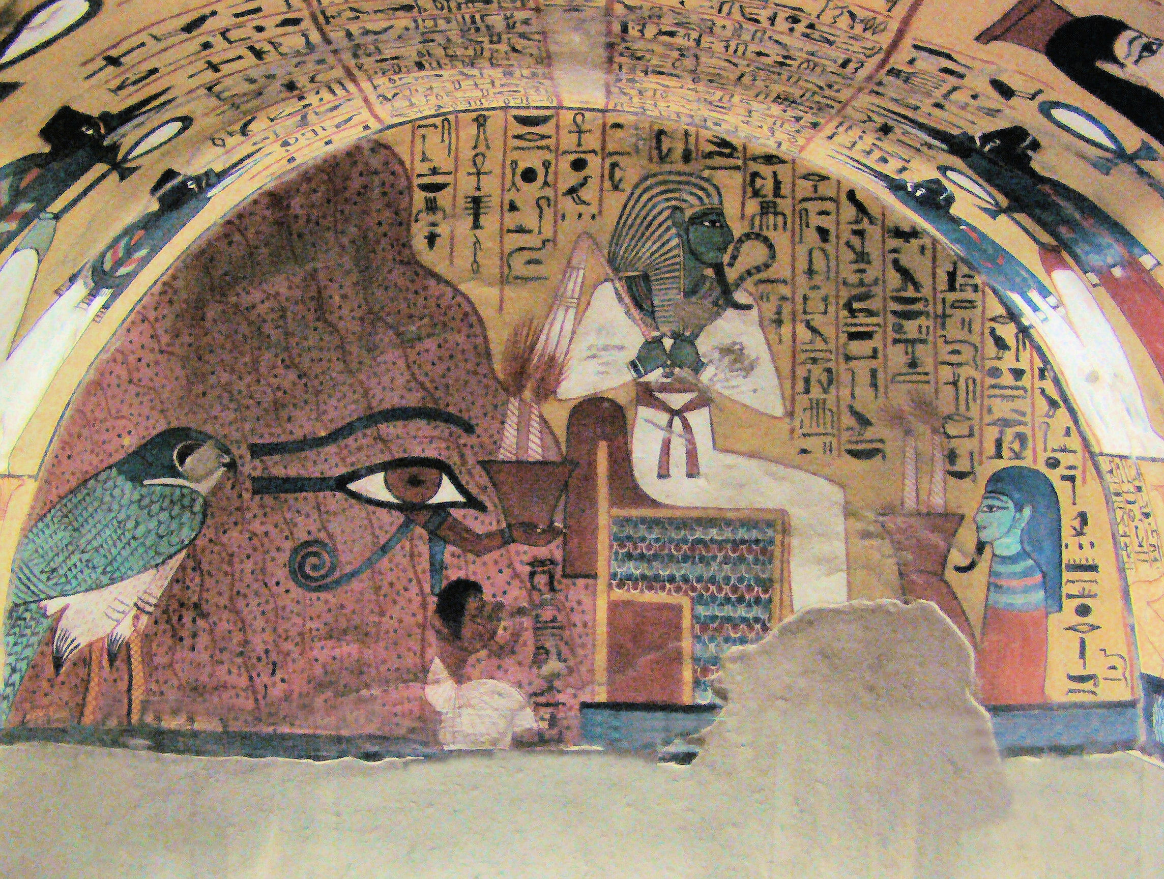 A view of the well preserved and beautifully painted Tomb TT3 from Deir el-Medina on the West Bank of Luxor. This scene depicts the god Osiris with the Mountains of the West behind him. It belonged to Pashedu who served as an Ancient Egyptian artist and foreman at Deir el-Medina under pharaoh Seti I.